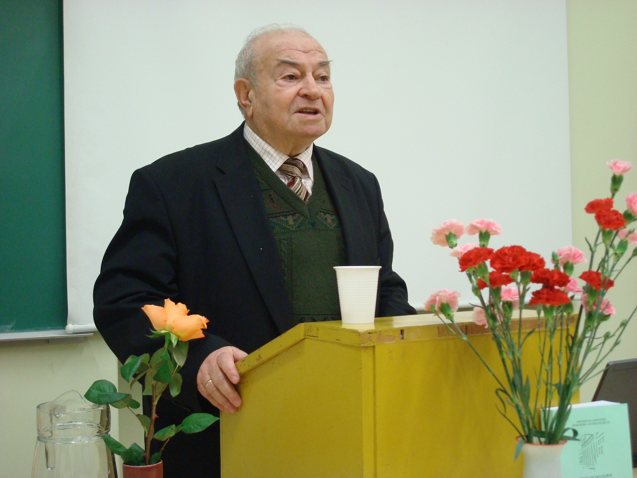 Leonid Stolovich, pholosopherEesti: Leonid Stolovitš on juudi päritolu vene keeles õpetav Tartu Ülikooli professor esteetika alal